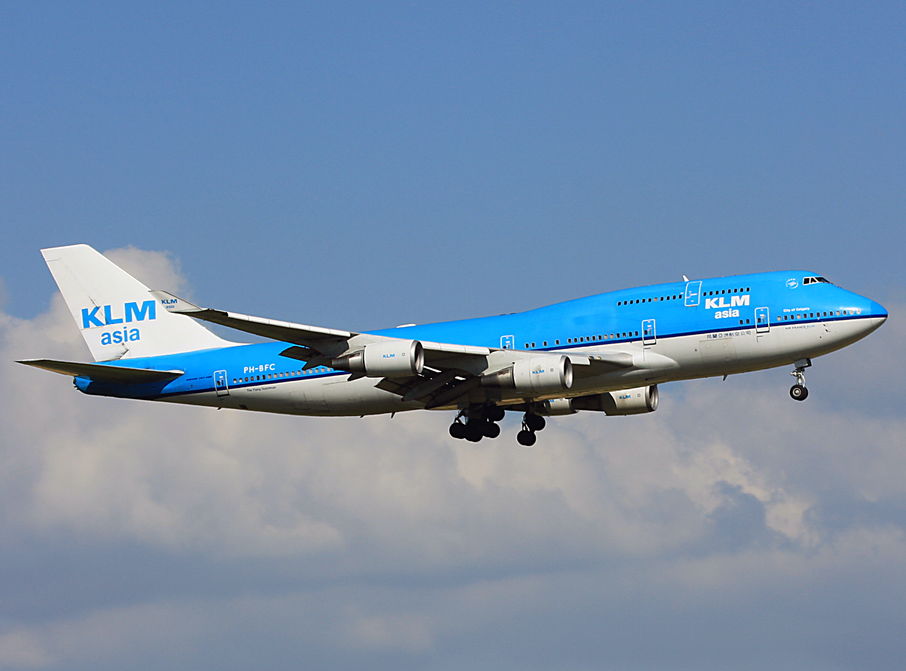 Landing EHAM on 18R